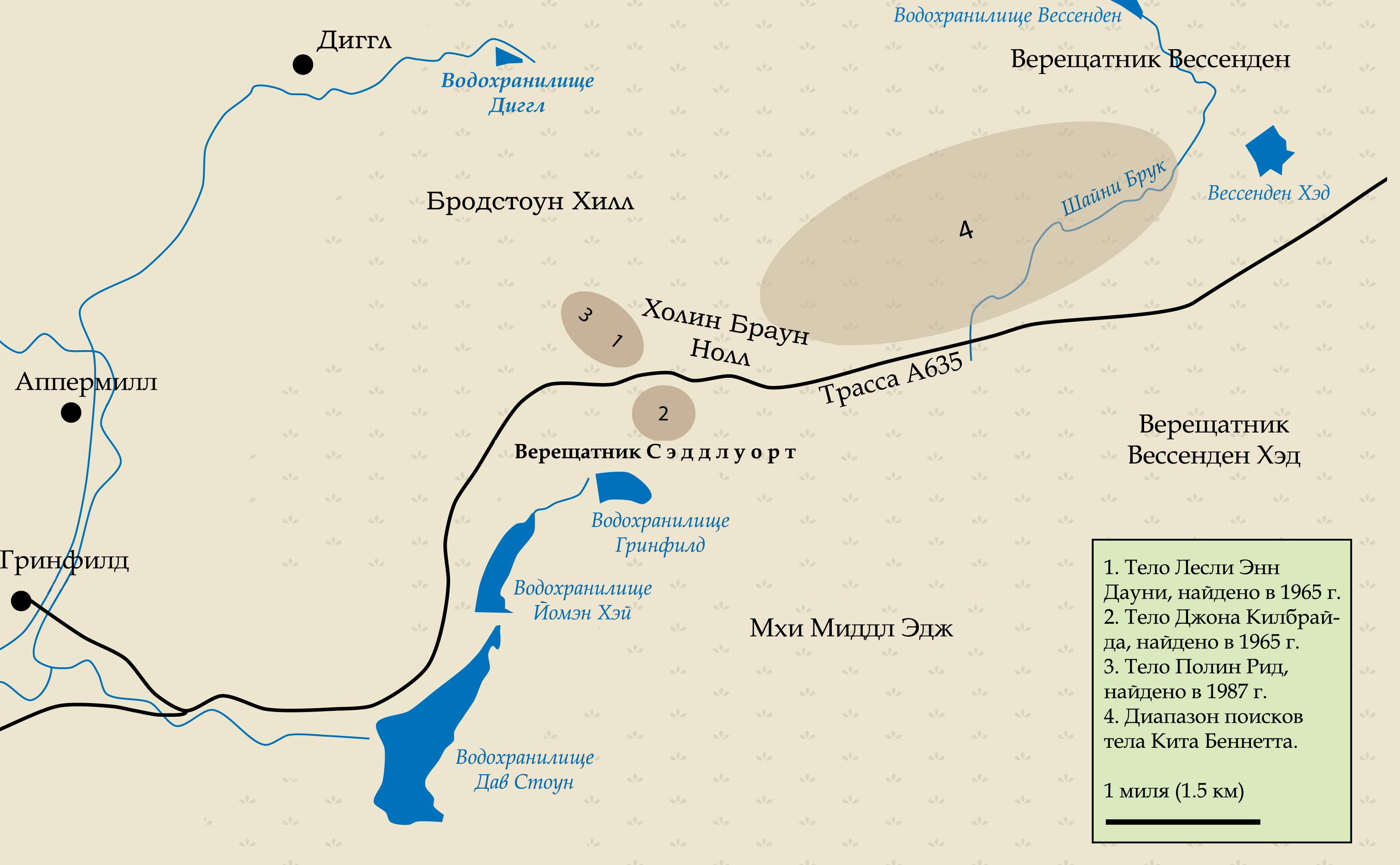 A general map of the area in which the burial of three of the victims of the Moors Murderers took place.